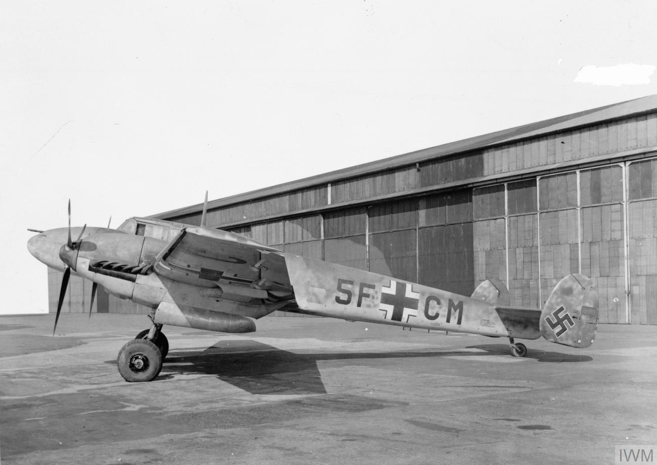 A captured German Messerschmitt Me 110 C-5 (W.Nr. 2177) of the reconnaissance unit 4.(F)/14 (5F+CM). This aircraft was shot down by the Red Section of No. 238 Squadron RAF on 21 July 1940 at Goodwood (UK). The pilot, Oblt. Friedrich Karl Runde managed to put it down in relatively good condition. It was repaired at Royal Aircraft Establishment at Farnborough with parts from Me 110 2N+EP of 9./ZG76 (Oblt. Gerhard Kadow) that was shot down near Wareham on 11 July 1940. It was flown for the first time again on 15 February 1941. Later it was tested at RAE Duxford, painted in RAF colours (RAF serial AX772). It was assigned to No. 1426 Squadron after the end of the trials. Stored in November 1945, it was scrapped in November 1947.